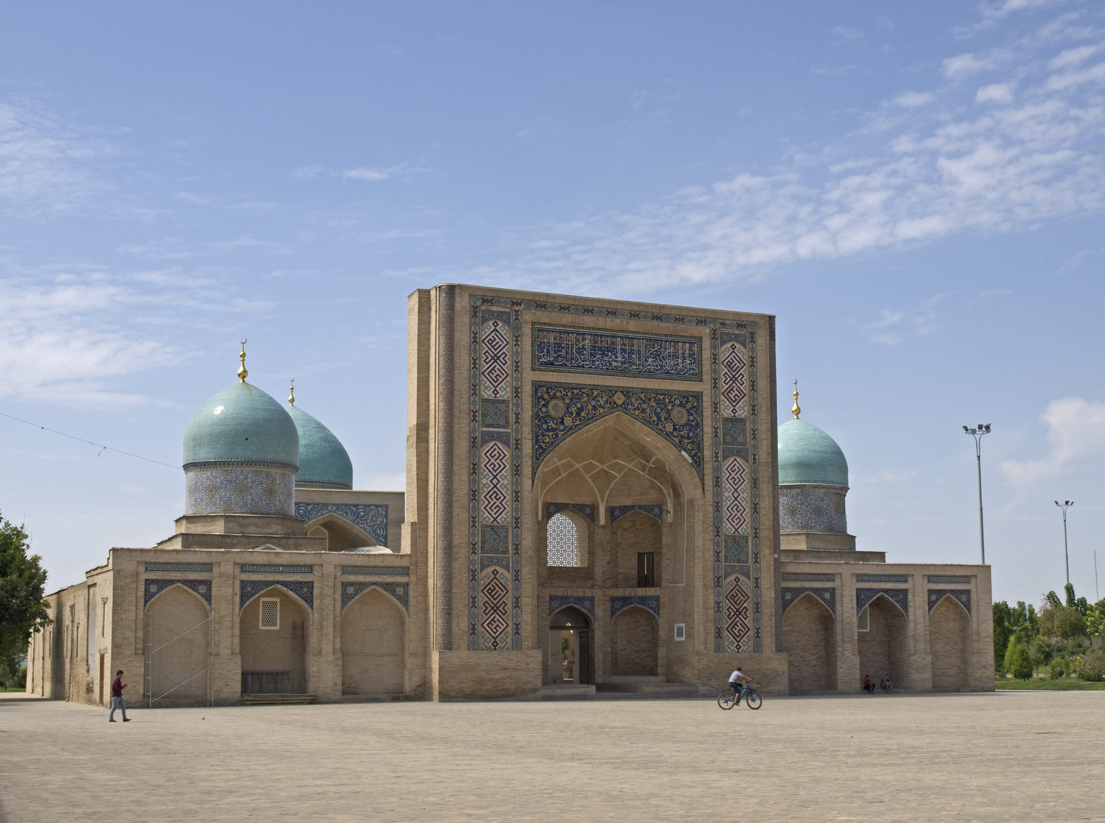 Barakhan Madrasah, front view, Tashkent